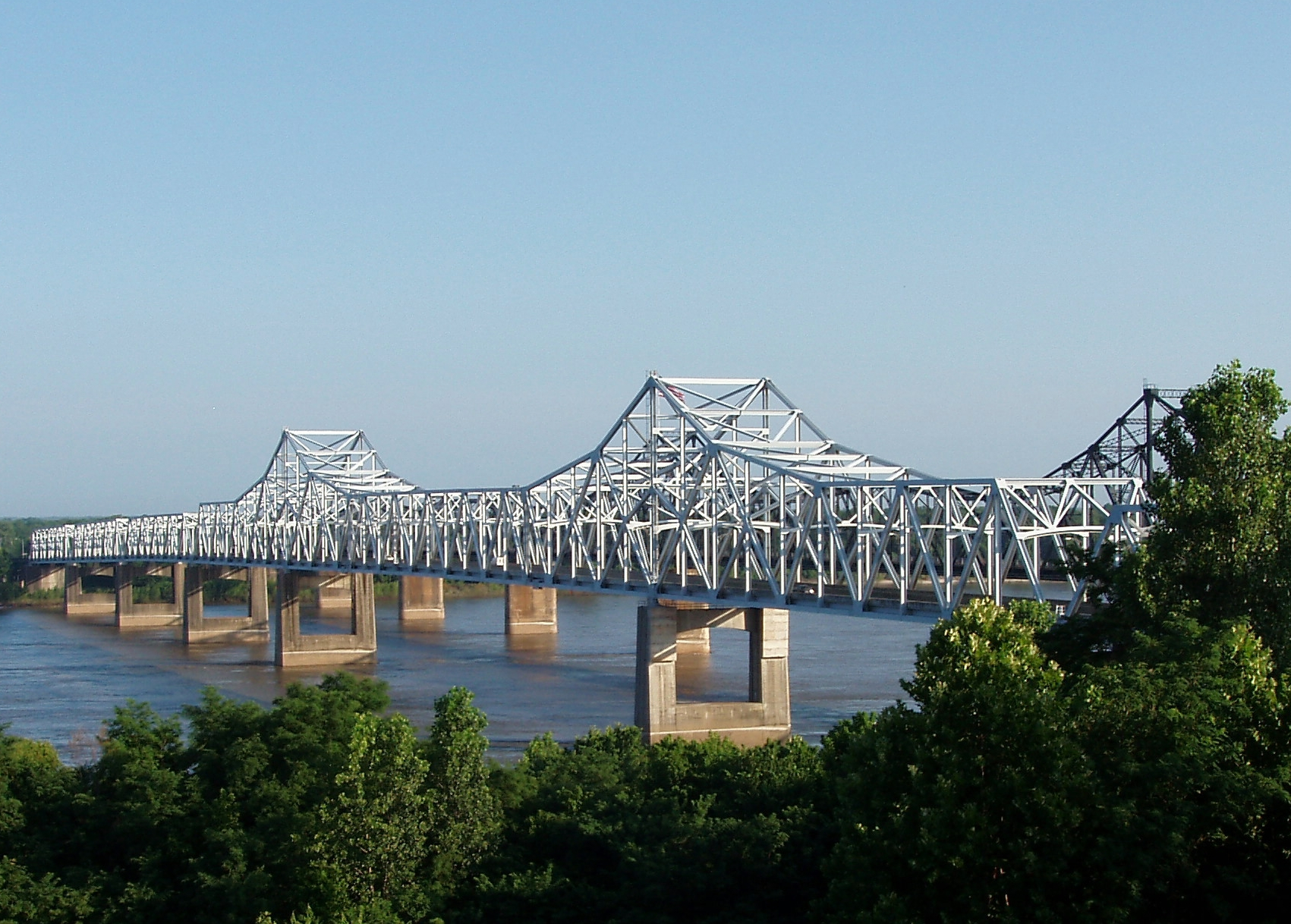 The Vicksburg Bridge is a cantilever bridge carrying Interstate 20 and US 80 across the Mississippi River between Delta (Louisiana) and Vicksburg (Mississippi)